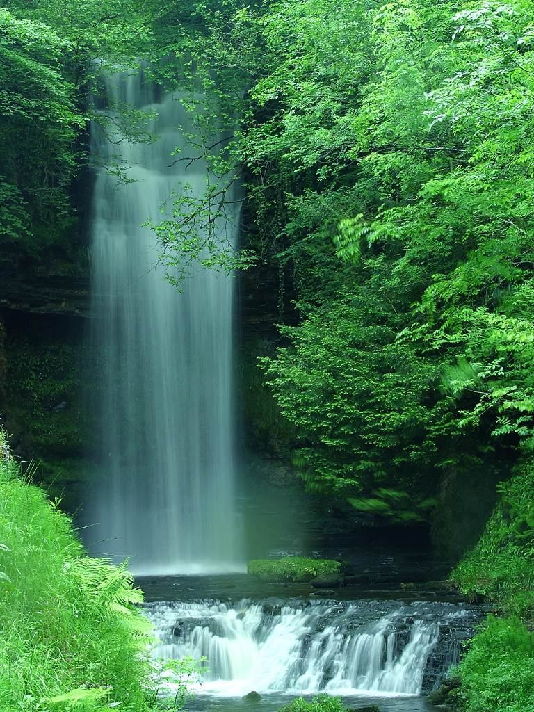 Glencar Waterfall - 2002-06-16 The waterfalls at Glencar Lough, Ireland.